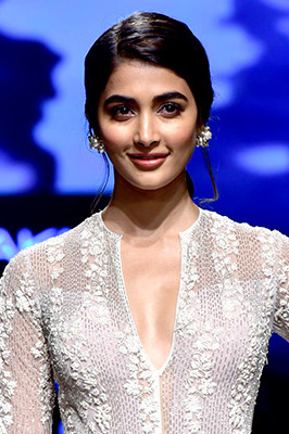 Pooja Hegde walked the ramp at the Lakme Fashion Week 2018, Feb 5.